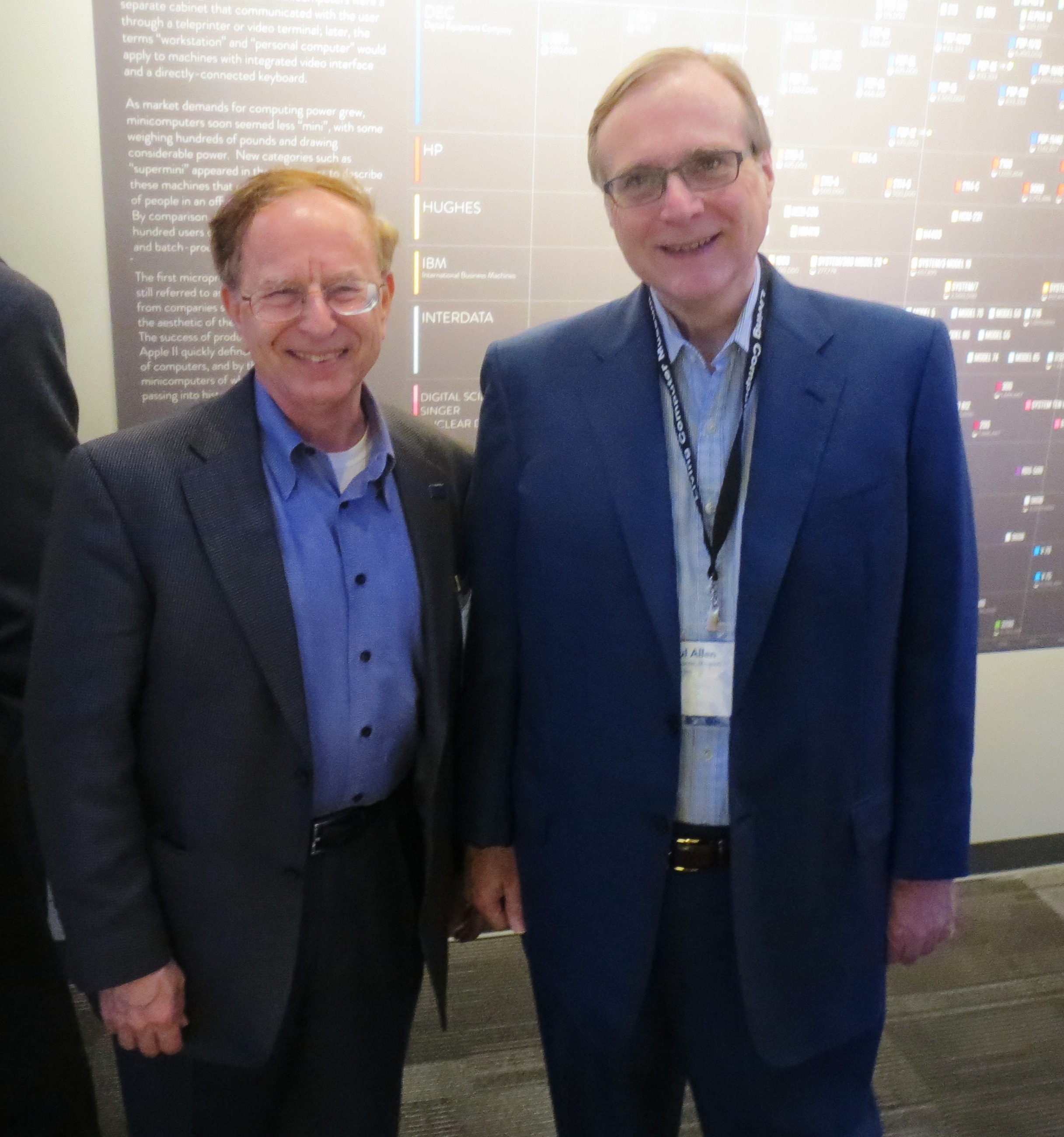 Harry Garland and Paul Allen at event honoring Computer Pioneers held at the Living Computer Museum in Seattle, Washington, April 2013.